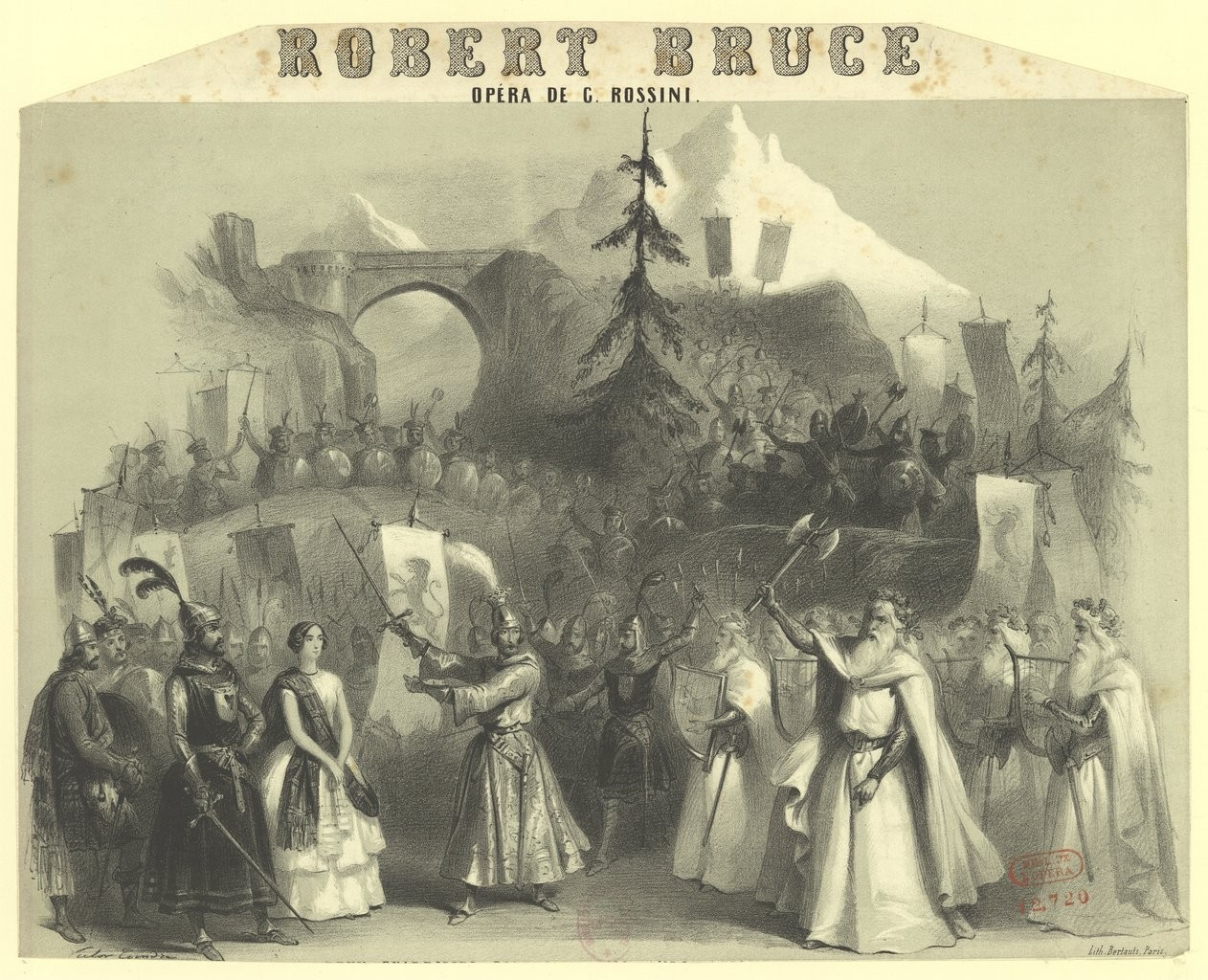 Rossini - Robert Bruce - Paris 1846 - Scene - Victor Coindre - 2 Paris : Théâtre de l'Opéra-Le Peletier, 30-12-1846 1 est. : lithogr. ; 20 x 25 cm (im.)